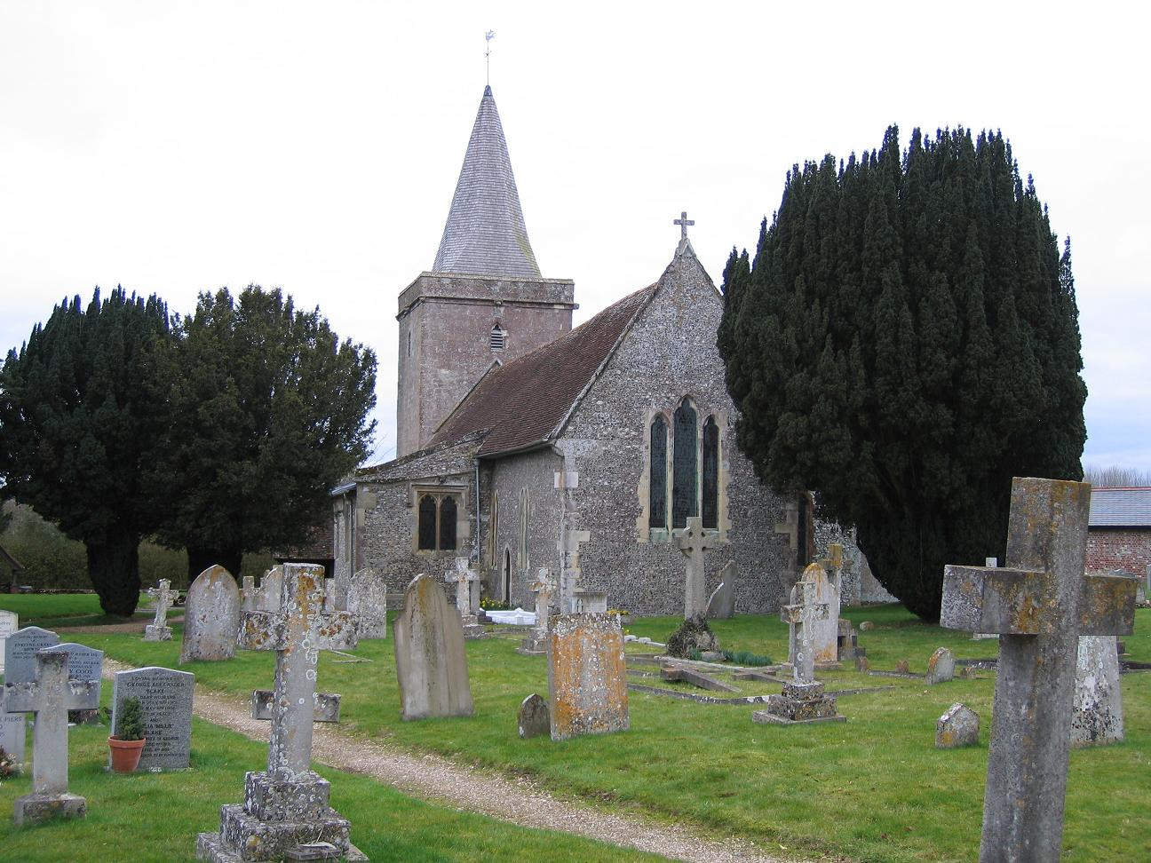 St Peter's parish church, Goodworth Clatford, Hampshire, seen from the east